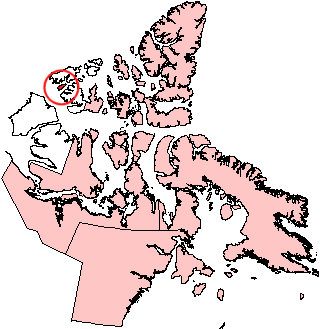 Base image created by Keith Edkins as GFDL, modified by Tim Vasquez.